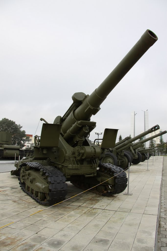 Verkhnyaya Pyshma Tank Museum 2011